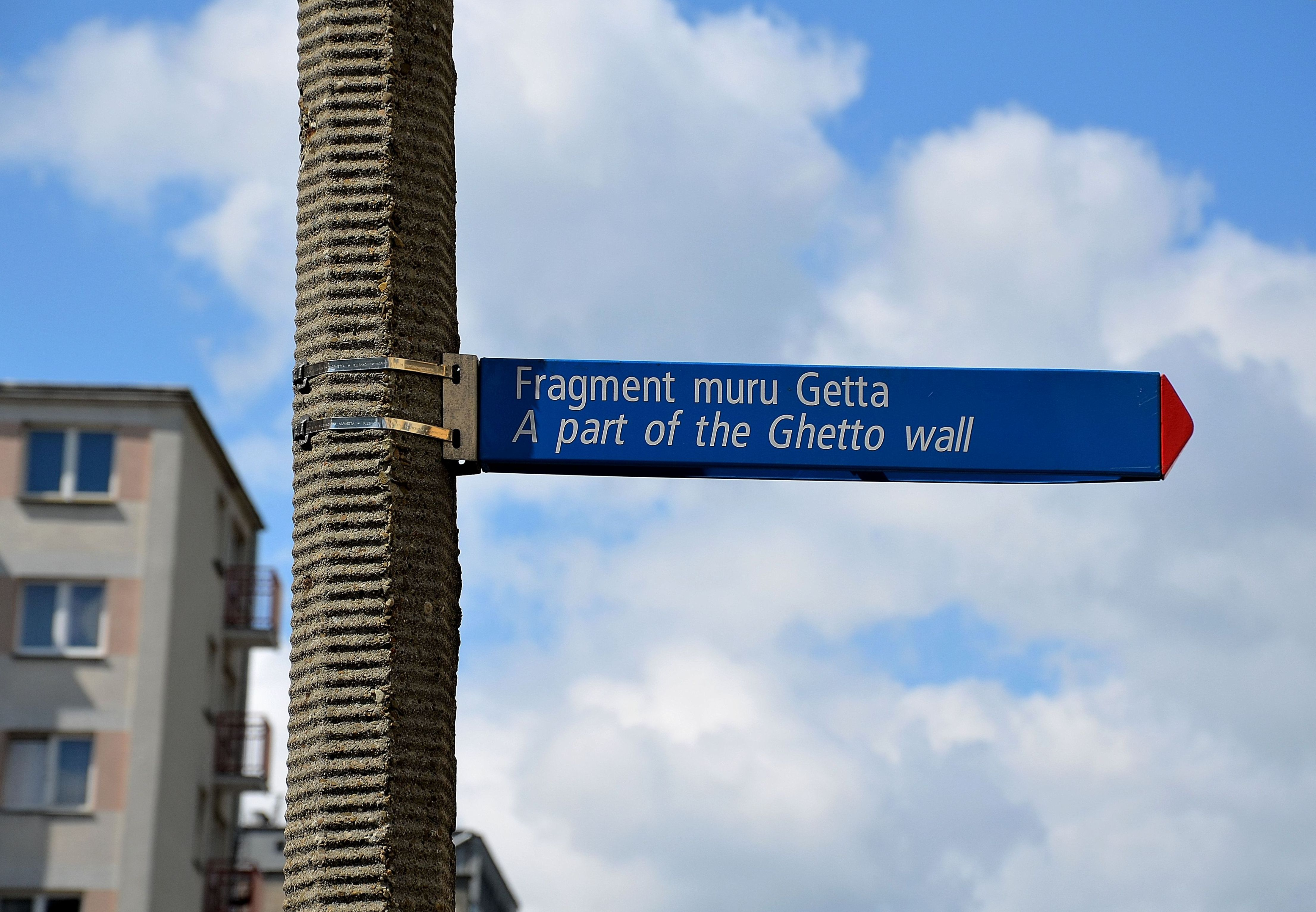 MSI (City Information System) fingerpost at 62 Złota Street in Warsaw